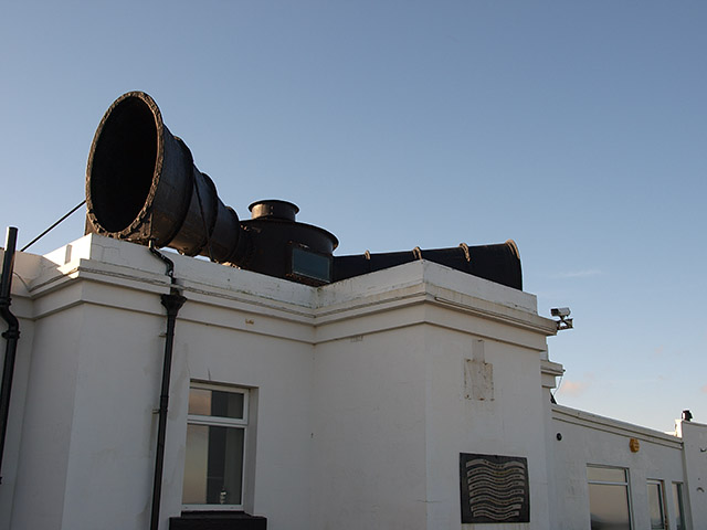 Whitby Fog Signal On the cliff-top at Whitestone Point. The building seemed to be empty.